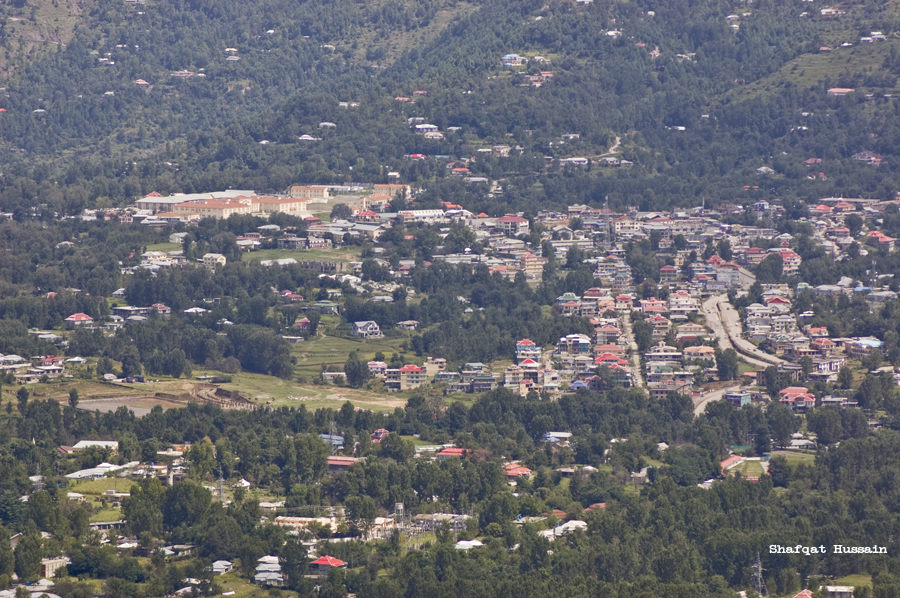 Rawalakot city Area, Commercial Bazar